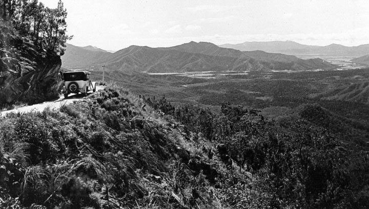 View from Heale's Lookout (lat -17.213126 lon 145.698854 -- 2000 ft) Gillies Highway, NQ. (Gillies Highway, was completed in 1926, extends from Gordonvale south of Cairns to the Atherton Tableland, and was named after eminent local and former Queensland Premier, WN Gillies.)